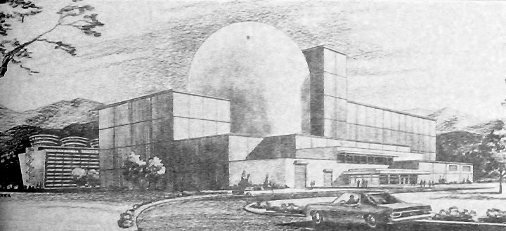 An architect's drawing of the planned Liquid Metal Fast Breeder Reactor demonstration plant for the U.S. city of Oak Ridge, Tennessee. Authorized in 1971, the plant was a joint project of the Tennessee Valley Authority, the Commonwealth Edison Corporation, and the Atomic Energy Commission.